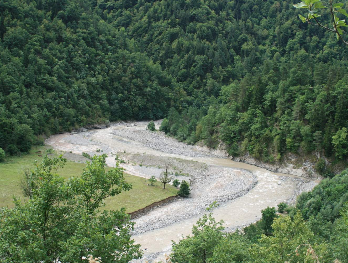 Ajaris-Tskali river north of Shuakhevi